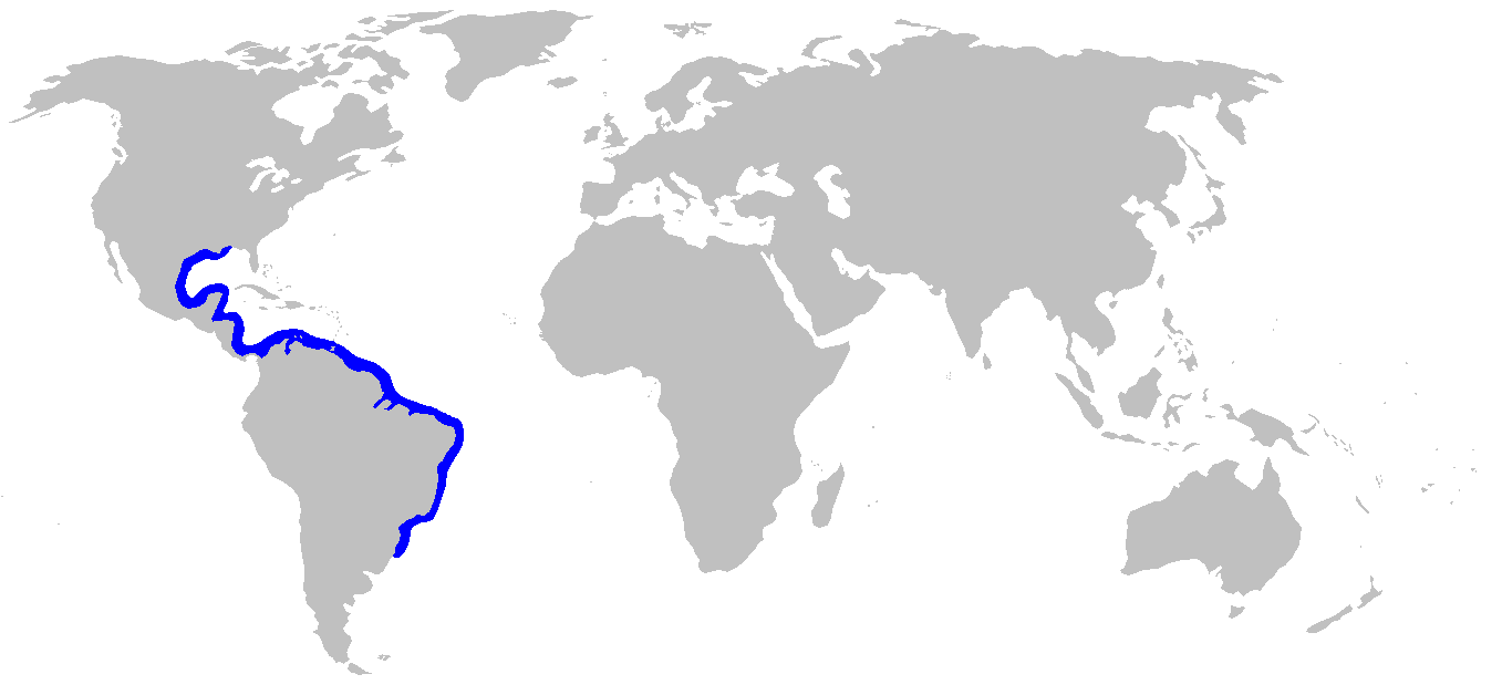 Distribution of the smalltail shark (Carcharhinus porosus). Based on IUCN, updated with data from Castro, J.I. (January 15, 2011). "Resurrection of the name Carcharhinus cerdale, a species different from Carcharhinus porosus". Aqua 17 (1): 1–10.